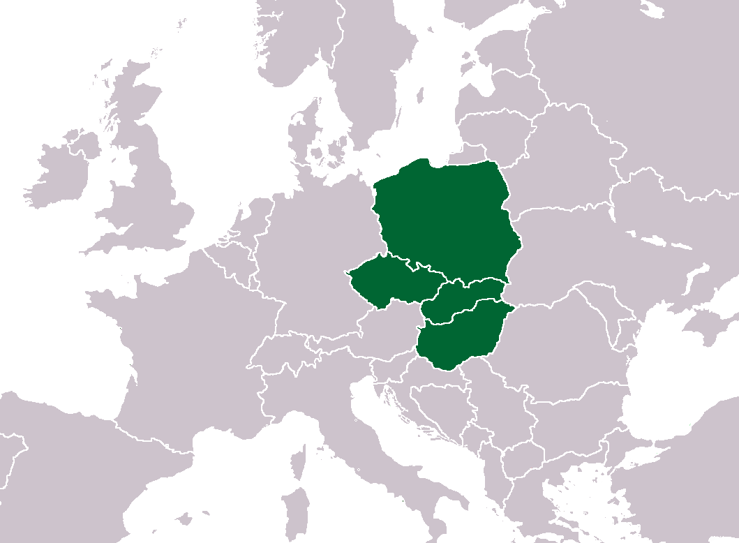 cs Mapa členů Visegrádské skupiny en Map of members of Visegrád Grou according to a 2005-04-14 article titled The future of the Visegrad group published by The Economist and the work Europe Today by Ronald Tiersky (Rowman & Littlefield, 2004, ISBN 9780742528055) also a map of Central Europe